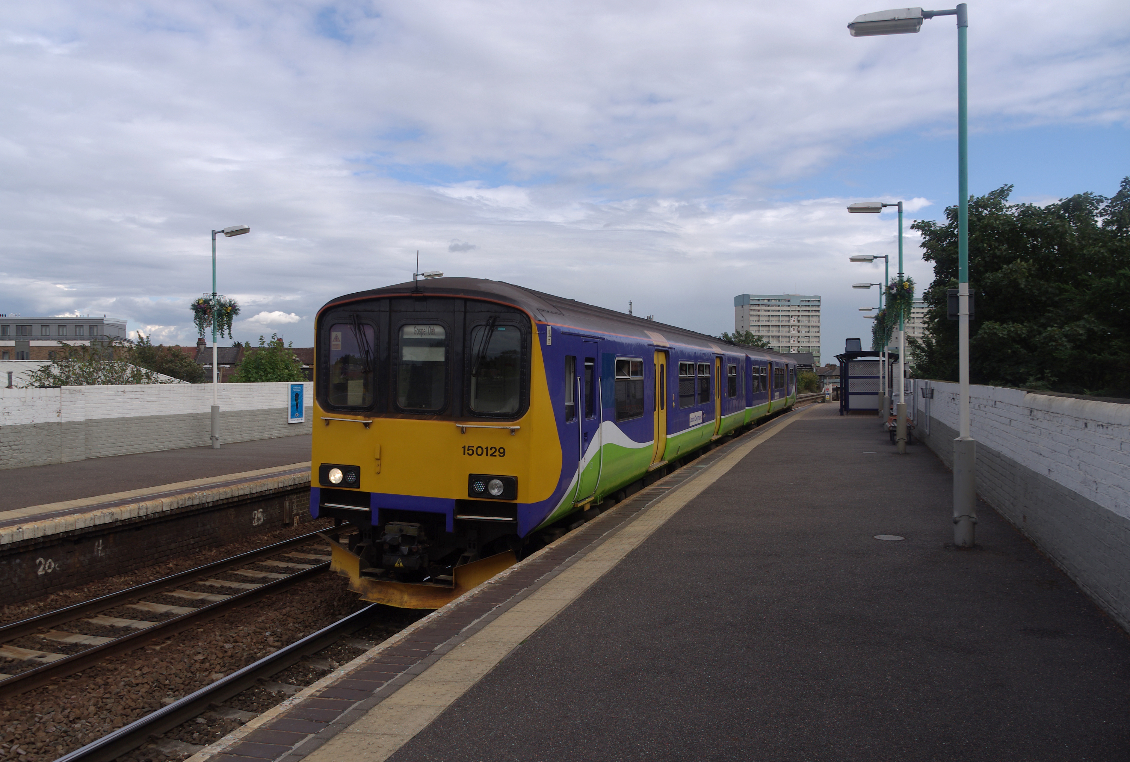 London Overground Sprinter DMU 150129 departs Leytonstone High Road railway station with a service from Barking to Gospel Oak.